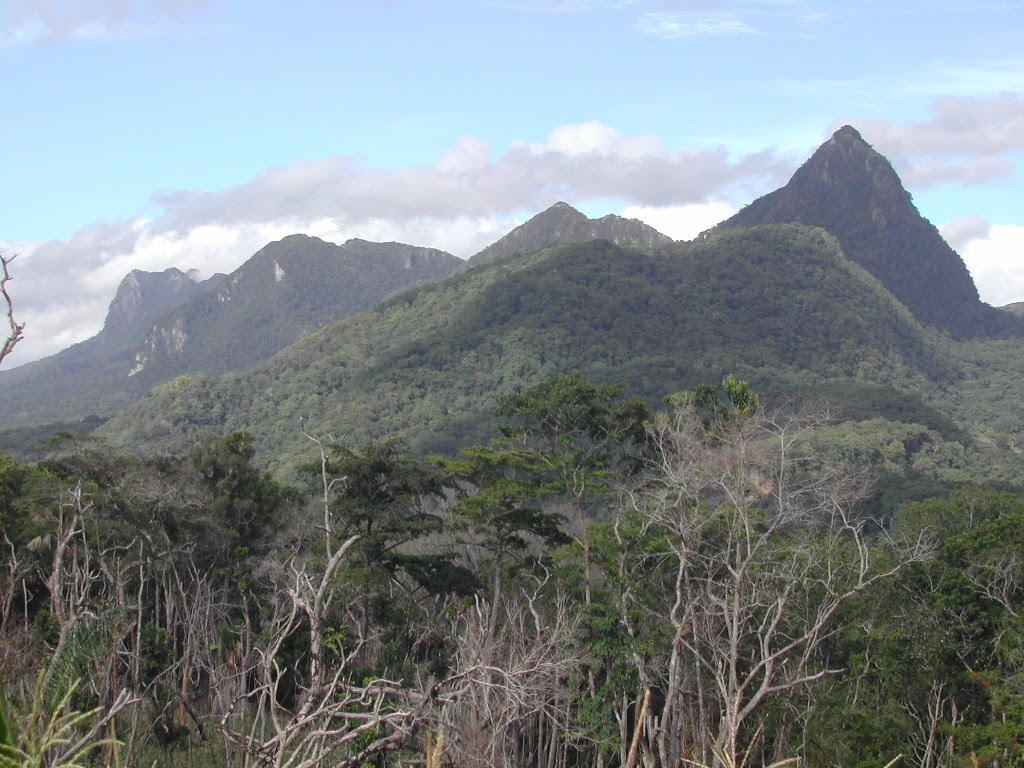 View west along the Paitchau Range from near Tutuala, Lautem, Timor-Leste